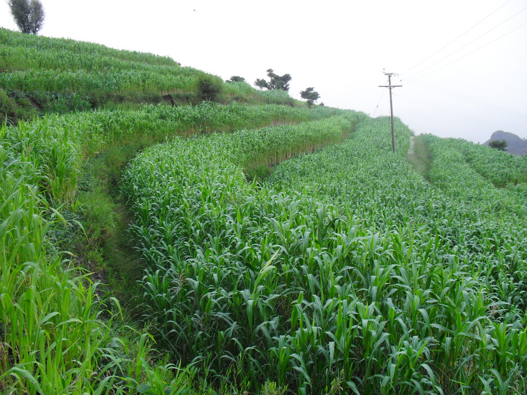 المدرجات الزراعية في مديرية حزم العدين